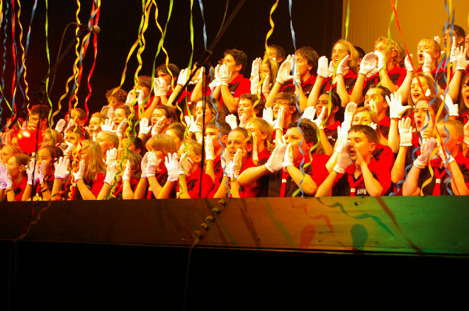 We'll do the hailing